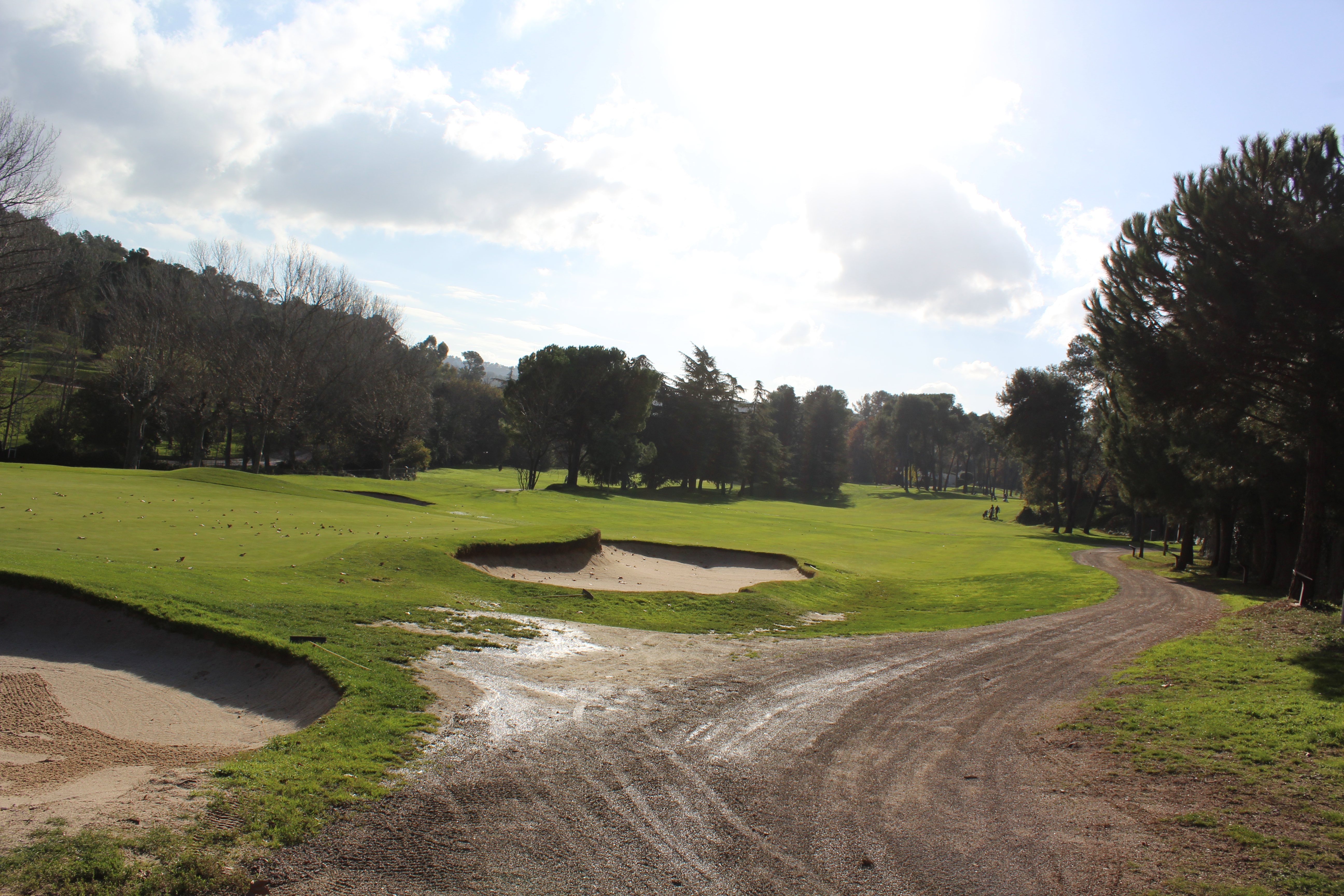 Can Mora, a XIV century farmhouse, location of the golf Sant Cugat